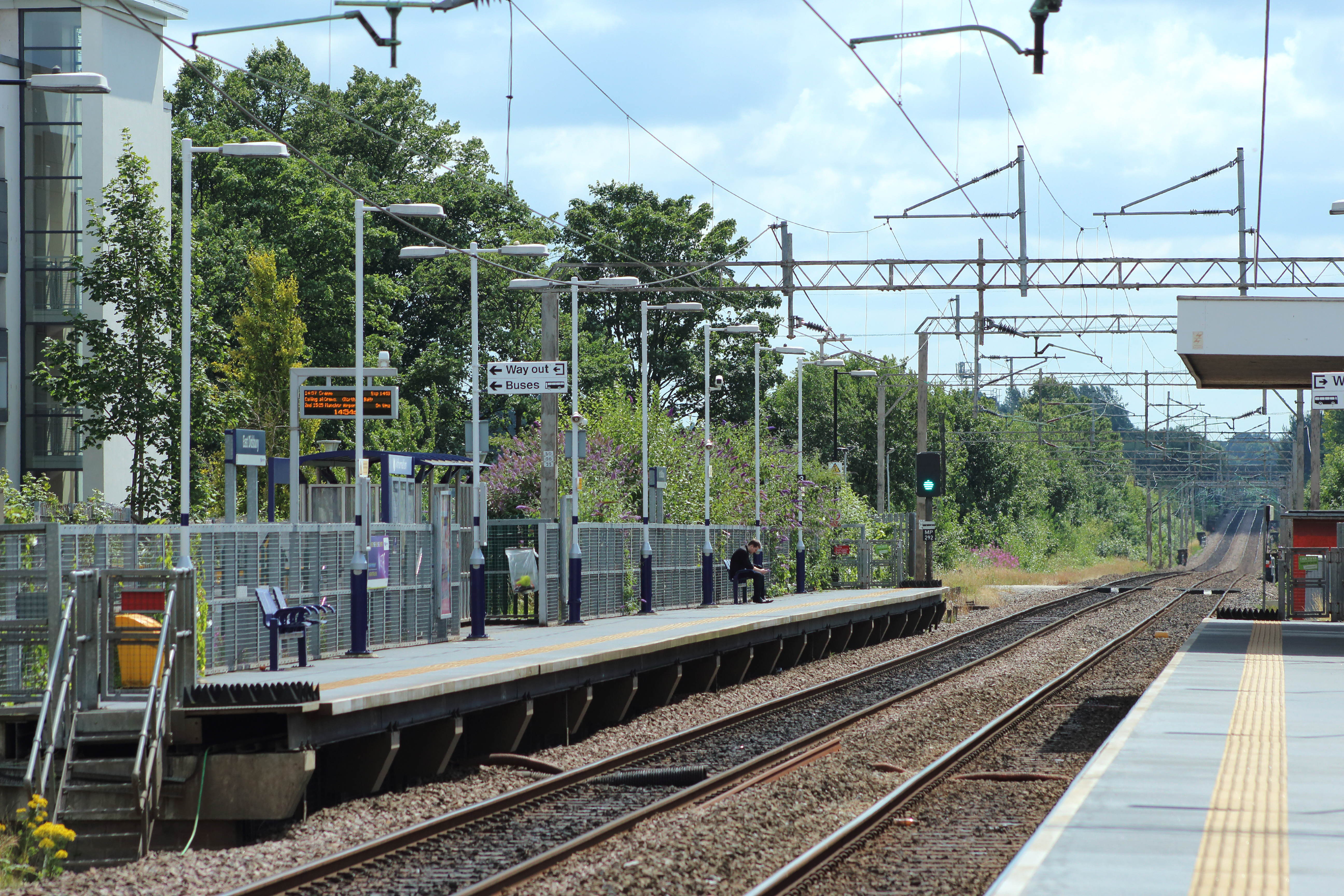 View across from the Northern platform to the southern platform at East Didsbury railway station in July 2015.